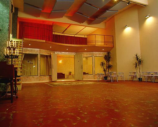 York Street's main recording space.